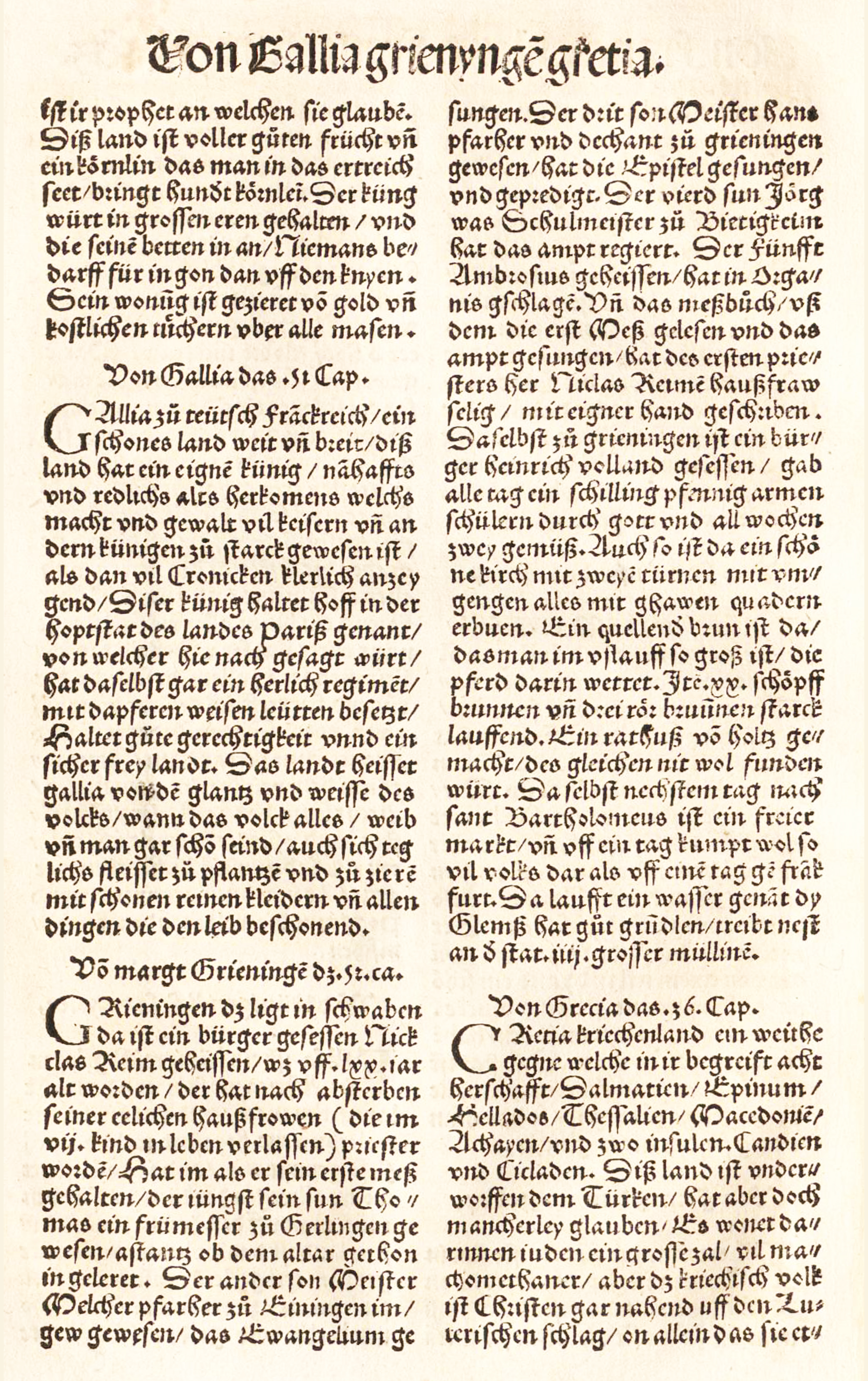 Grieningen (Markgröningen) in: Lorenz Fries: Uslegung der Mercarthen oder Cartha Marina ..., Straßburg 1527